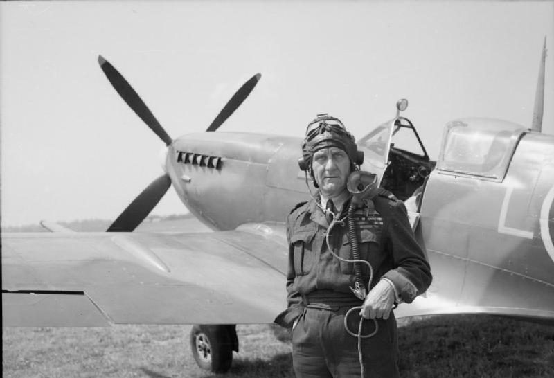 Royal Air Force- 2nd Tactical Air Force, 1943-1945. Air Vice Marshal L O Brown, Air Officer Commanding No. 84 Group, standing by his personal Supermarine Spitfire at Odiham. Hampshire.